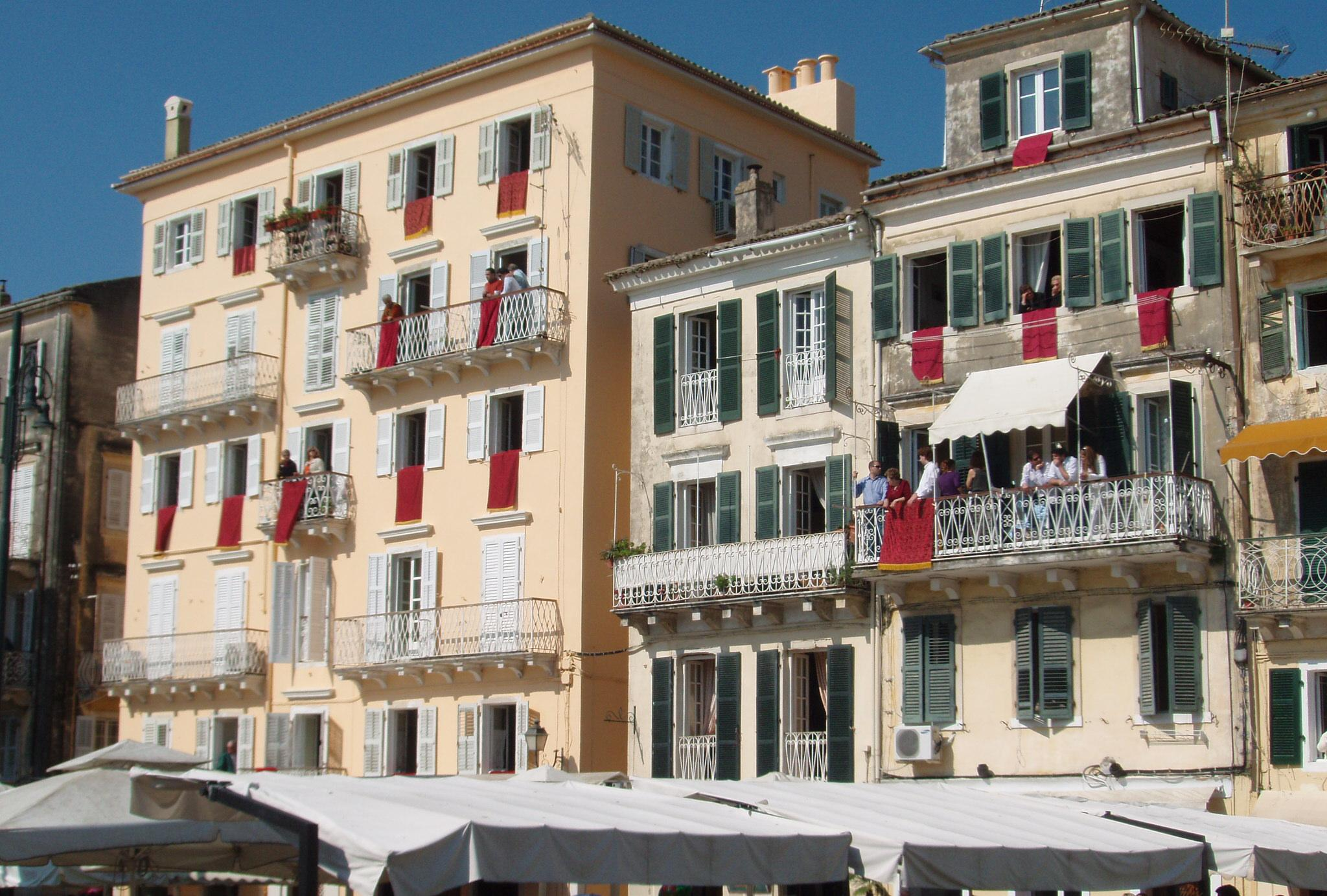 Houses in the old town of Corfu, decorated with red drapes for the traditional breaking of pottery vases on the morning of Holy Saturday.